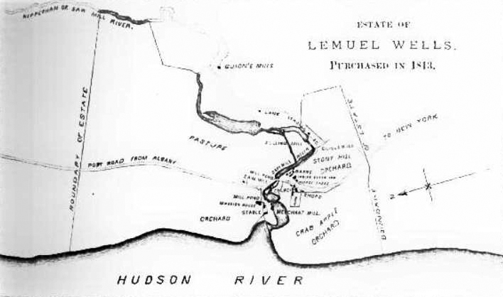 Map of present-day downtown Yonkers, NY, USA, at time land was purchased by Lemuel Wells in 1813, showing confluence of Hudson and Saw Mill rivers prior to extensive human modification later in the century, and minimal existing development.